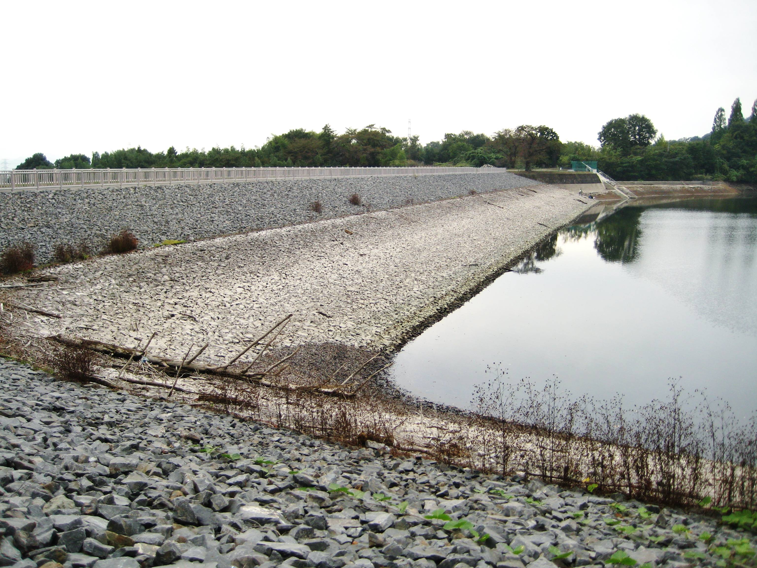 Hayakawa Dam.